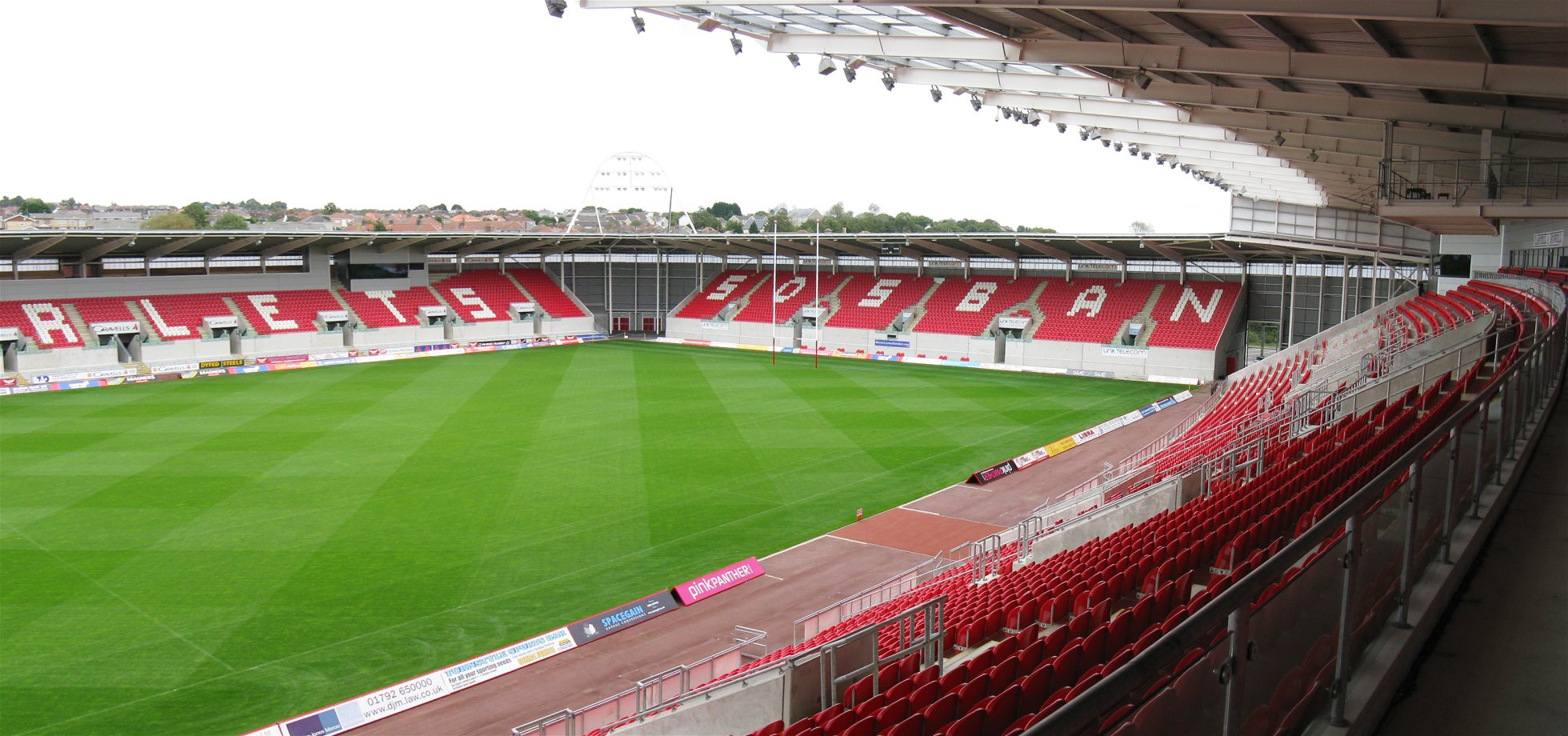 Eastern Interior of Parc Y ScarletsAs seen from the outdoor balcony of a hospitality suite. Alas the only action on the field today is a bit of groundskeeping.